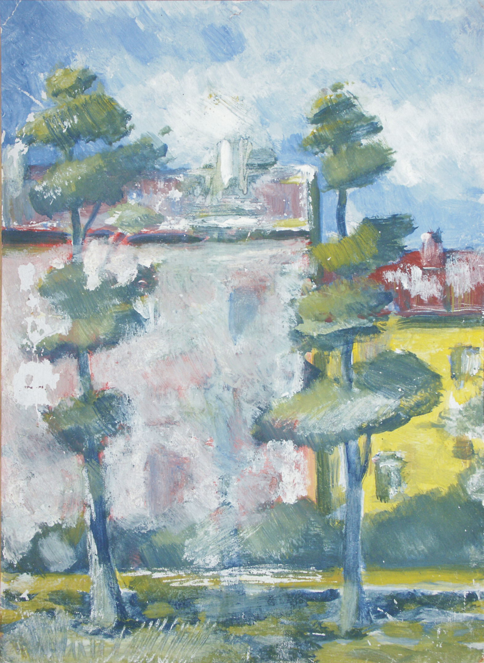 Mikhail Schultz. Lovely Day. 1970-th. Tempera